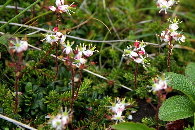 Bryanthus gmelinii (Mt. Tomuraushi, Hokkaido, Japan)